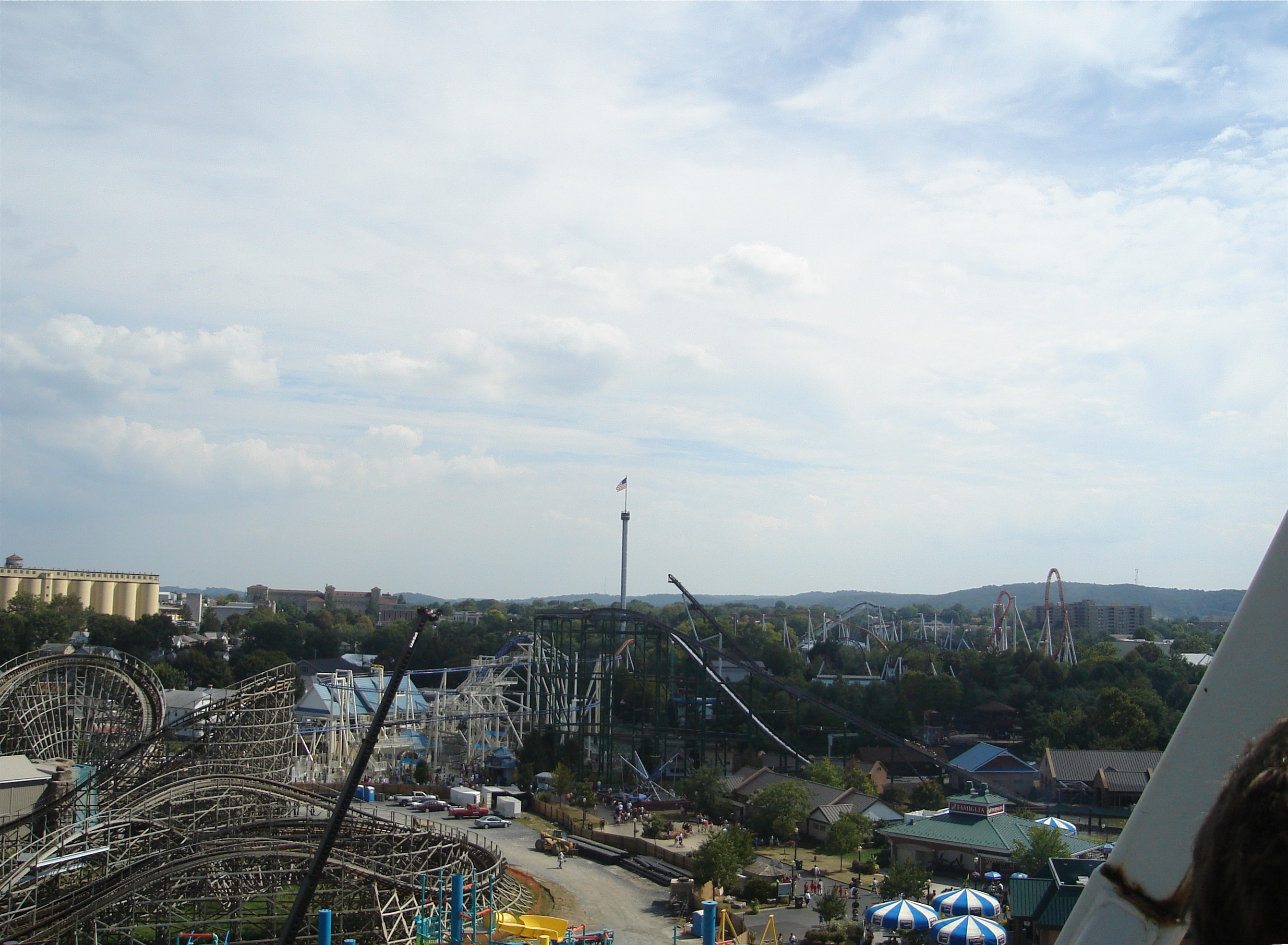 I took this picture when I visited Hershey Park this past August.